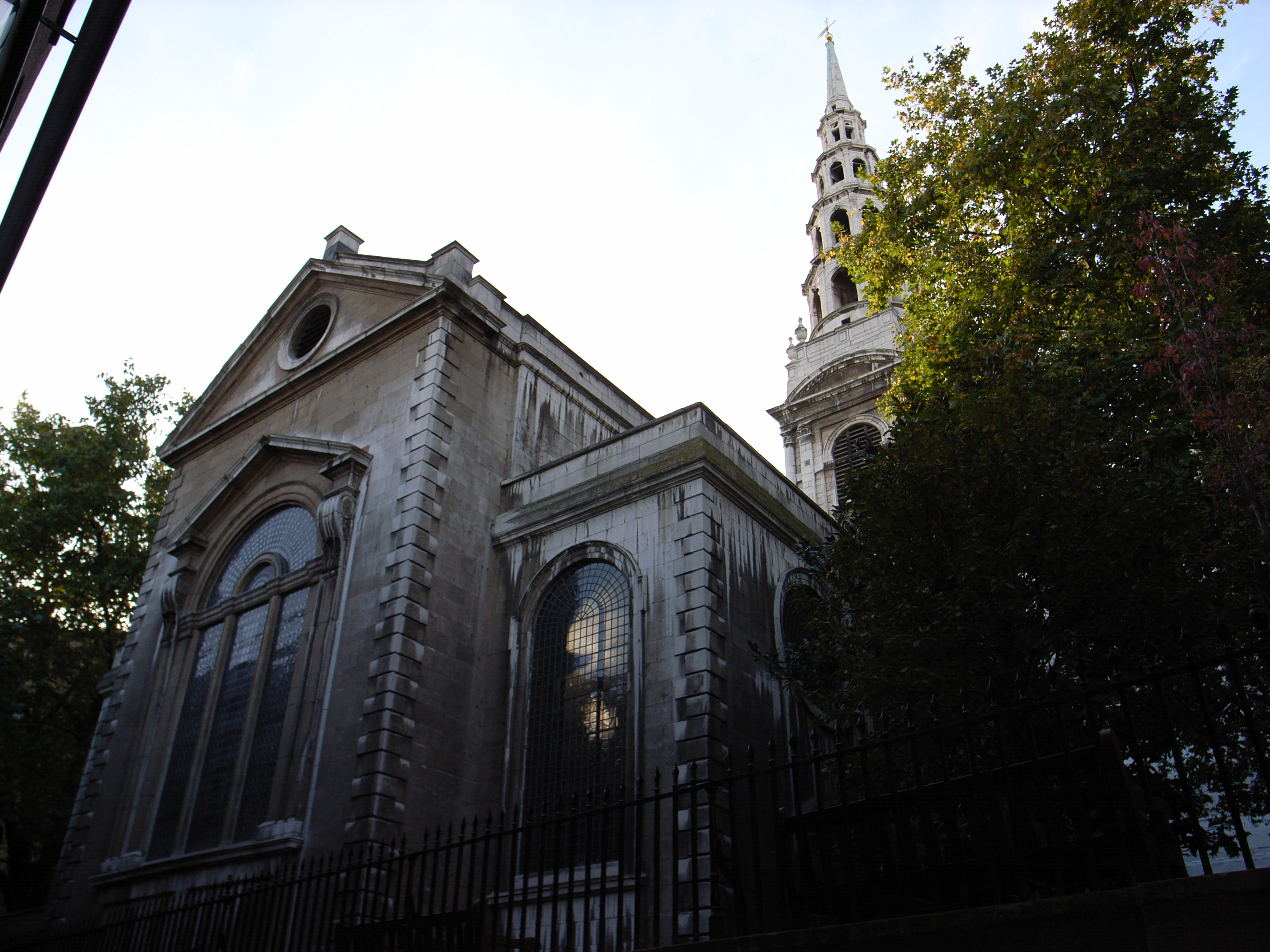 St Bride (1670-84) by Christopher Wren